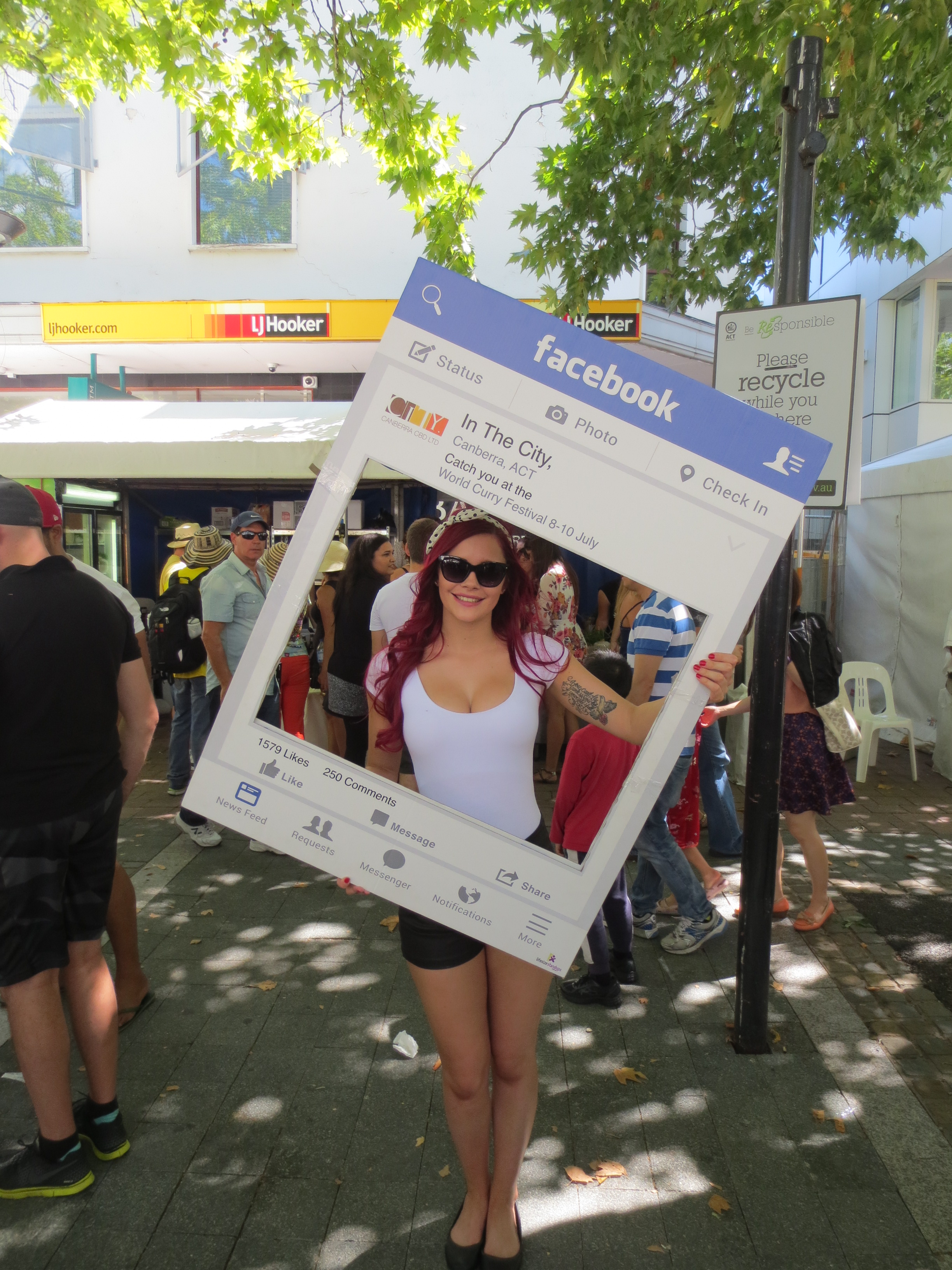 advertising Canberra Multicultural Festival